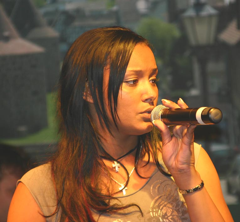 Vanessa Jean Dedmon (born 28 April 1987) was a semifinalist on Germany's third season of Deutschland sucht den Superstar (the German Version of Pop Idol) being voted out by the audience in the Top 3 Show.